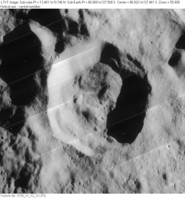 Pettit lunar crater - Lunar Orbiter - IV image LO-IV-186H